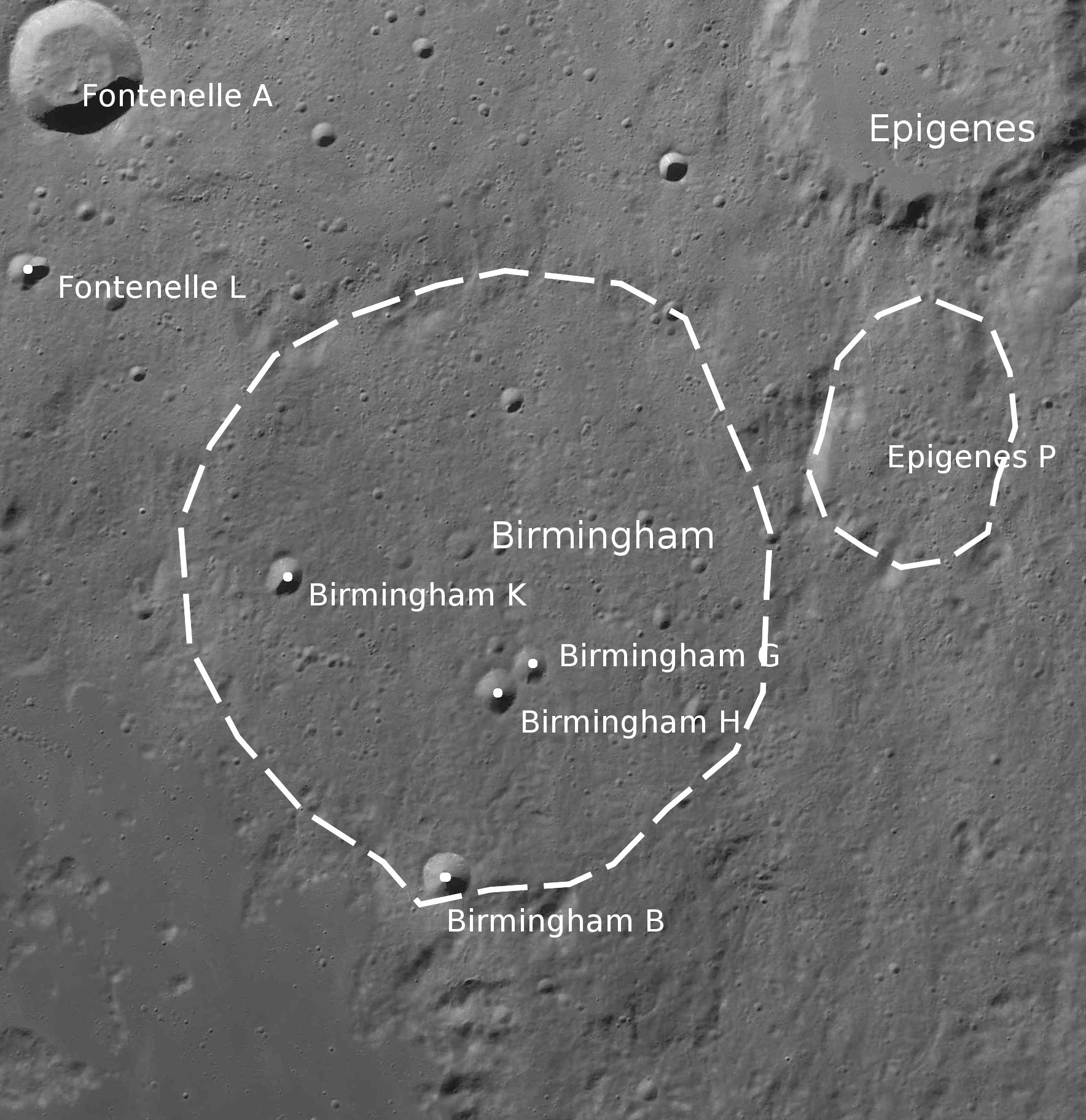 Moon crater Birmingham with satellite features (north at top; detail of LRO - WAC north pole mosaic)